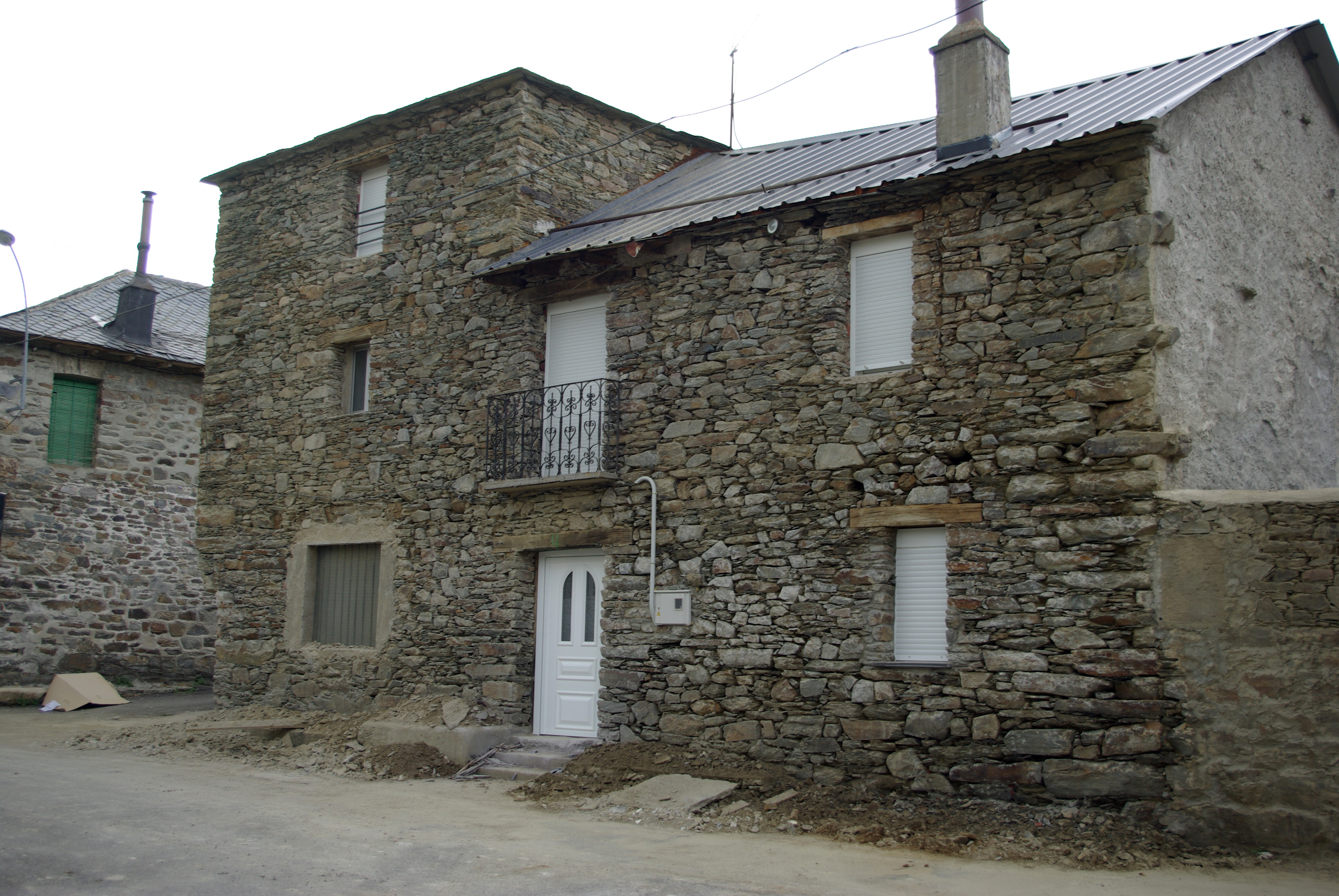 Traditional architecture in Barrio de la Puente (Murias de Paredes, León, Spain)